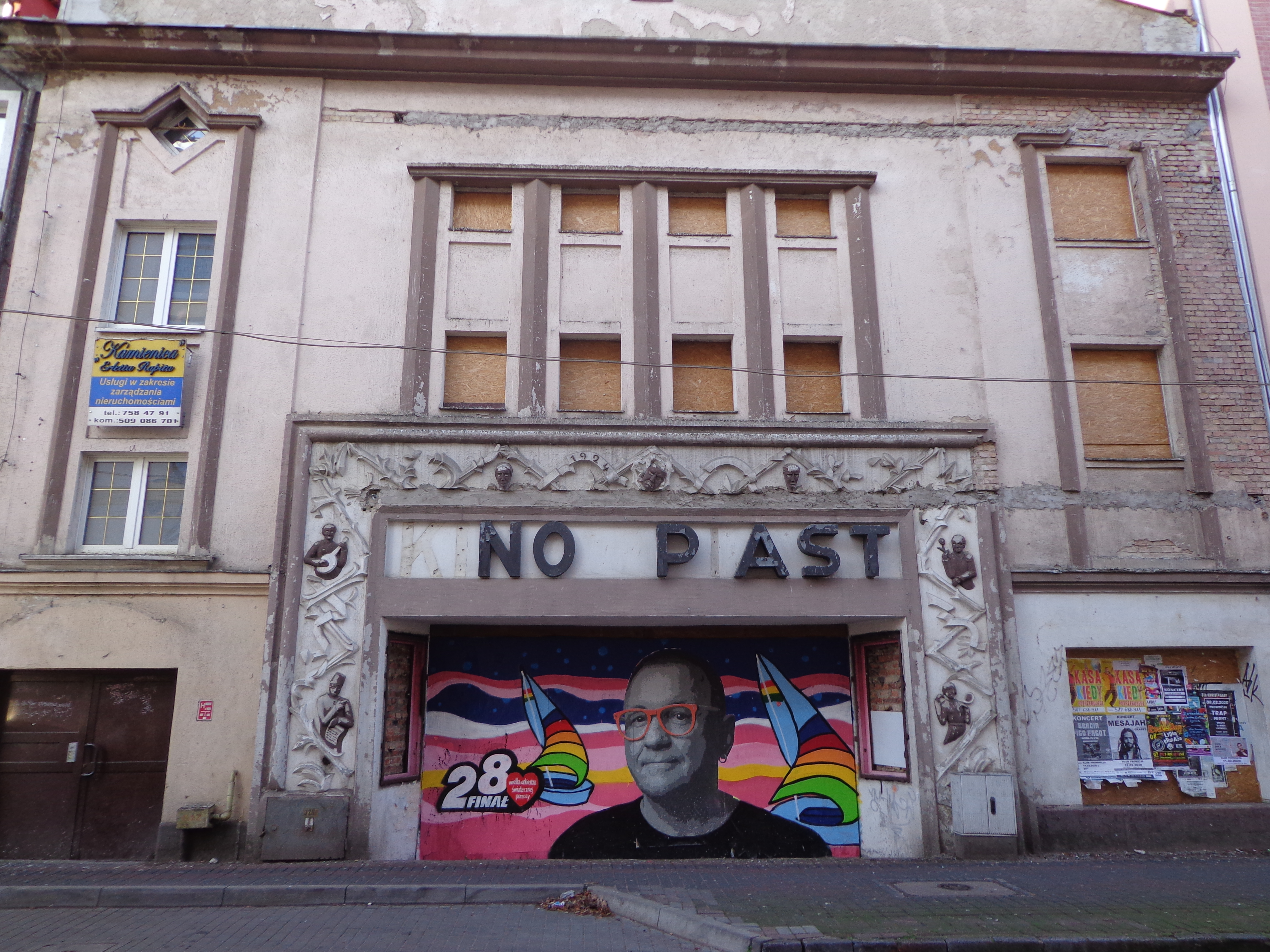 A Requiem for Europe.